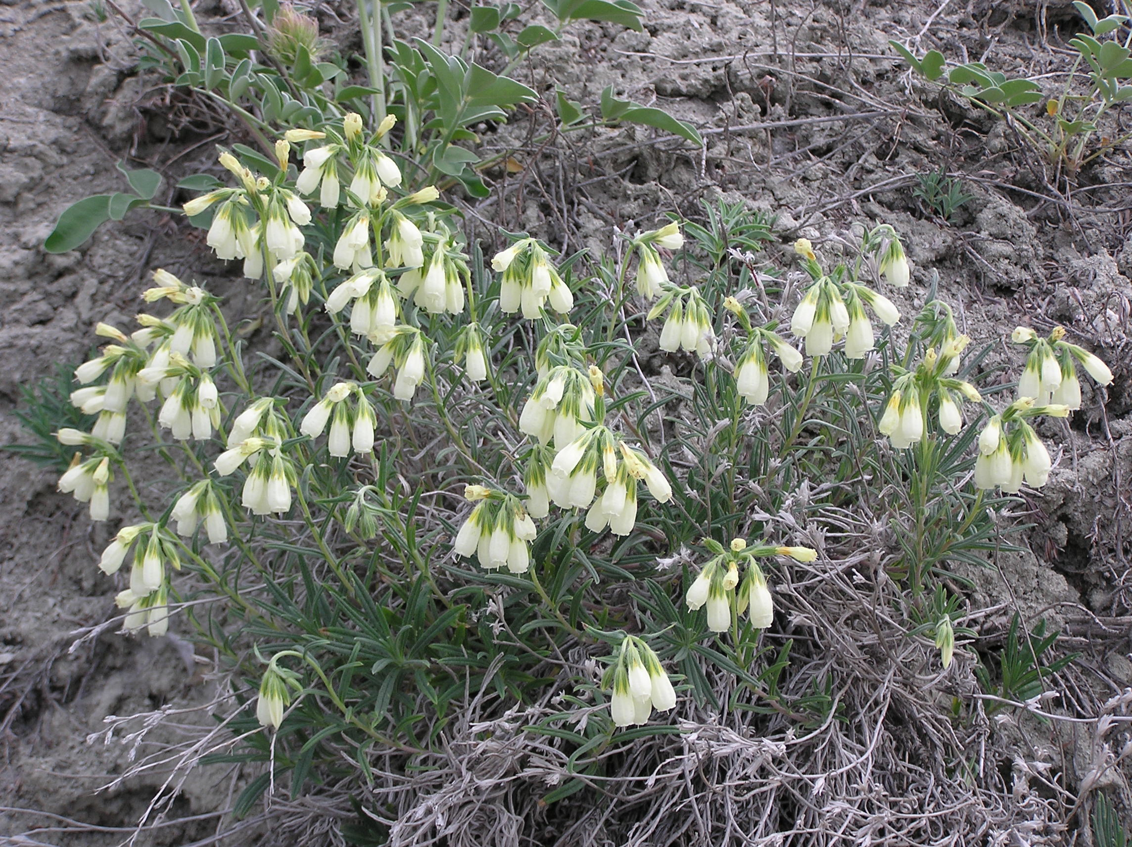 Onosma simplicissima ssp. volgensis Dobrocz. Habitat: southern chalk slope. Vicinity of Saratov city, Russia.